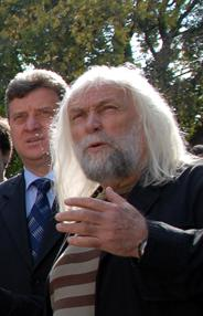 Pasko Kuzman with Gjorge Iavnov